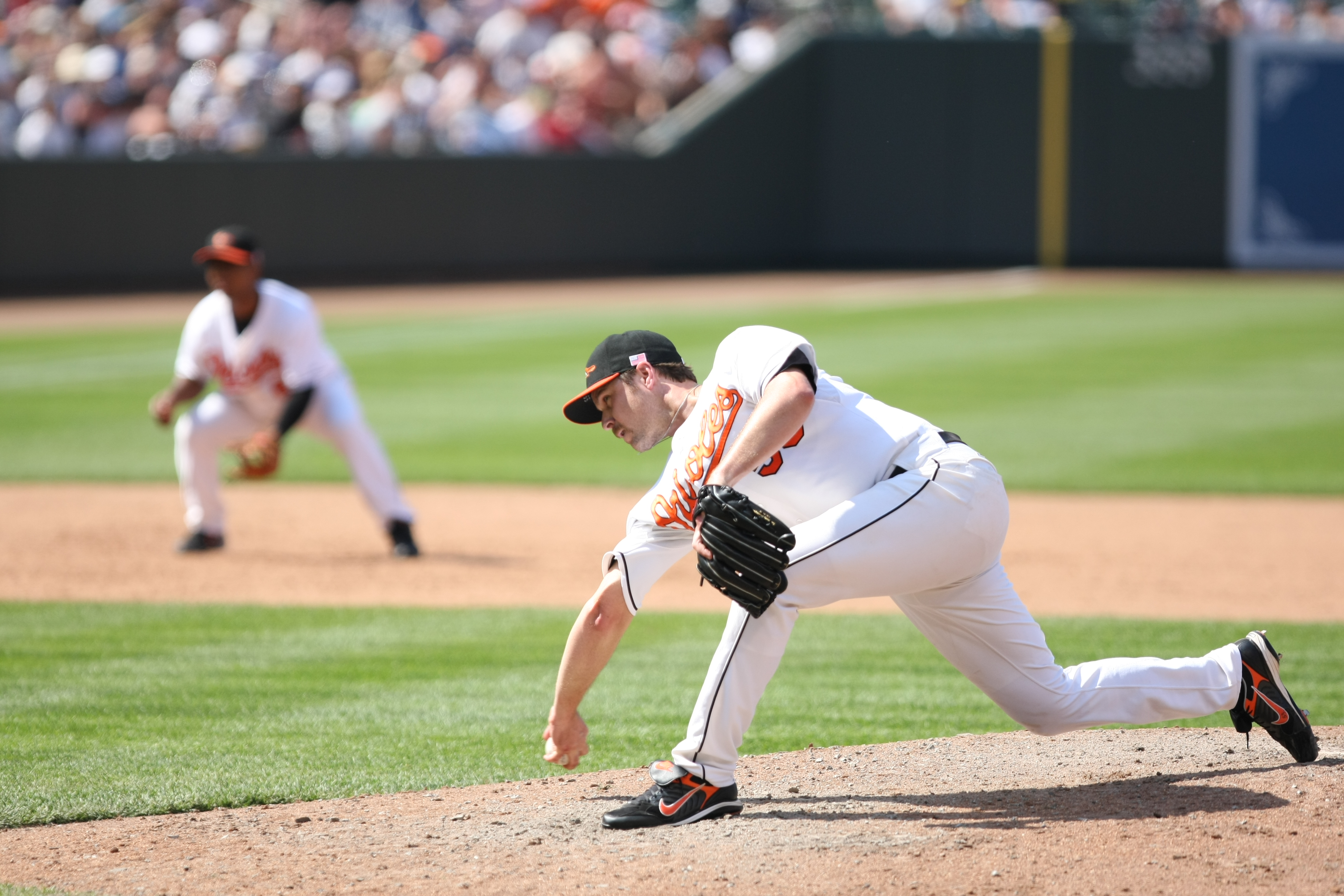 Bradford pitching in a Major League Baseball game against the New York Yankees.